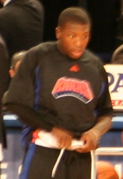 Nate Robinson of the New York Knicks